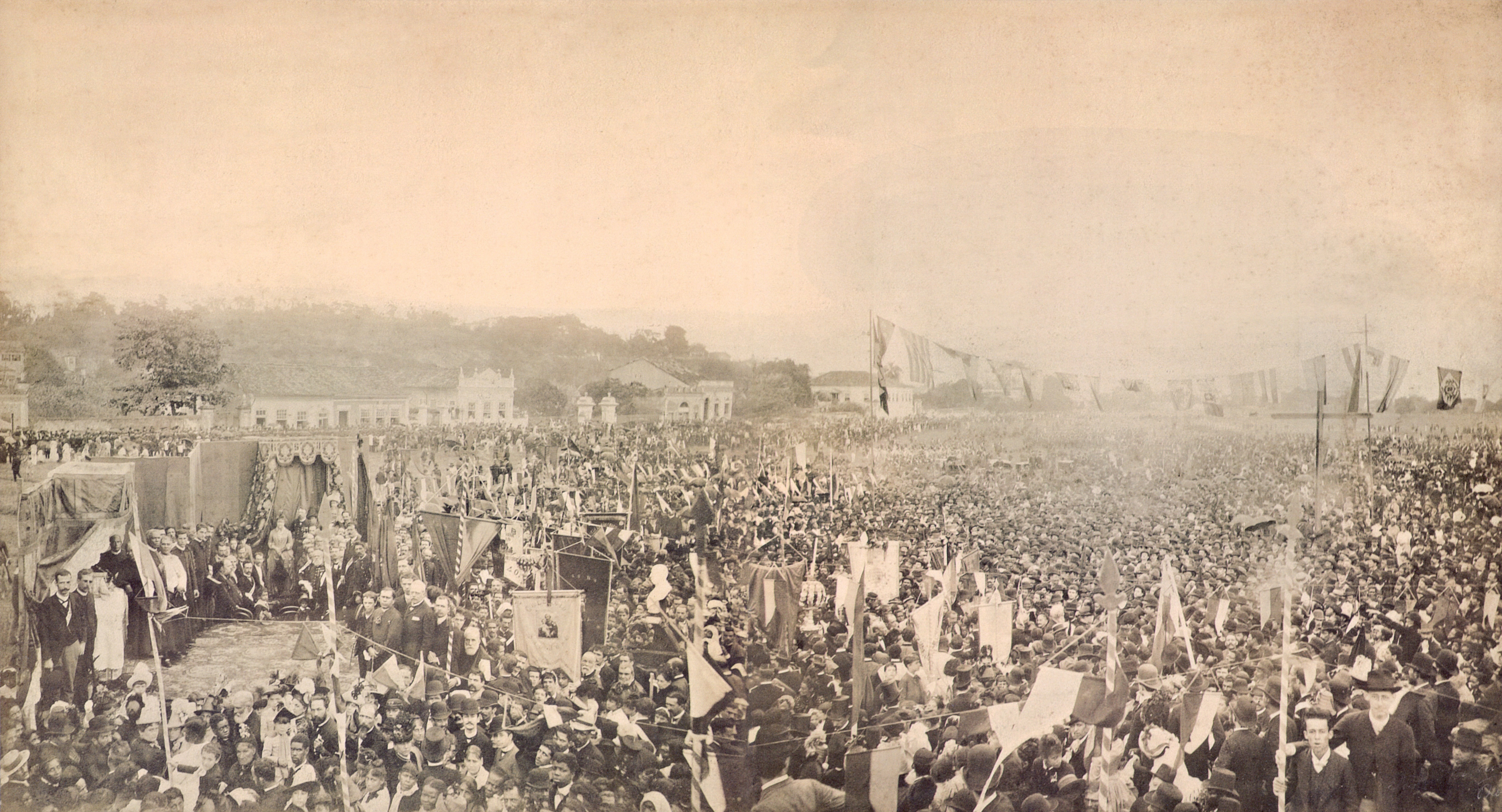 Thanksgiving Mass on May 22, 1888, to commemorate the Golden Law; on the left, Princess Isabel under the awning and about twenty thousand people. Rio de Janeiro, Brazil